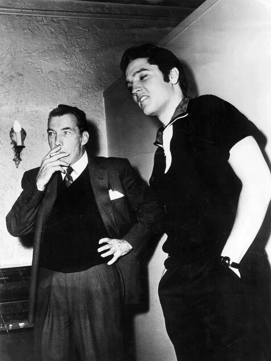 Elvis Presley and Ed Sullivan in New York City, October 26, 1956